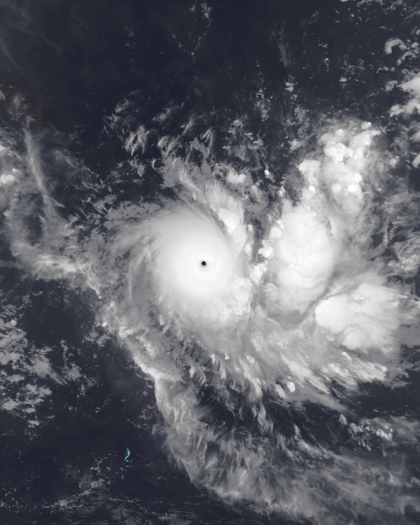 Intense Tropical Cyclone Ambali rapidly intensifying on December 5, 2019.